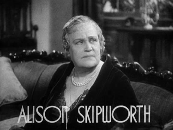 Frame from public domain trailer for Warner Bros. 1936 film Satan Met a Lady showing Alison Skipworth with her screen credit in type.